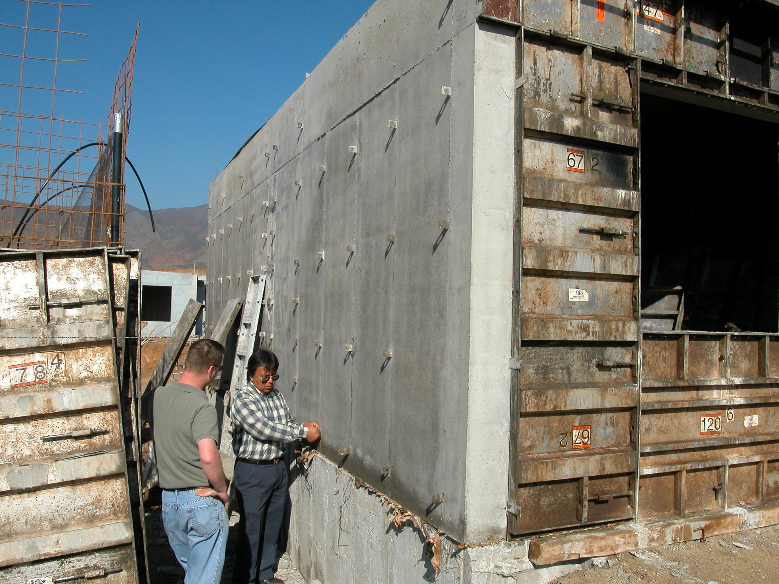 Concrete Housing construction in Mexico using aluminum concrete formwork